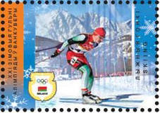 Part of Belarus souvenir sheet no. 72, commemorating the 2010 Winter Olympics and featuring skiing.